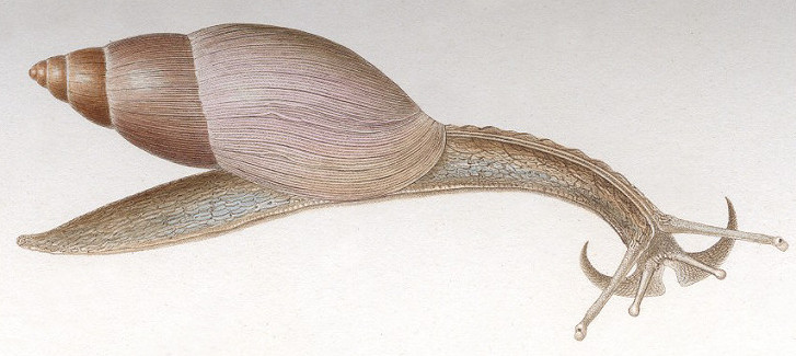 Euglandina rosea, called Glandina truncata by Binney in 1878